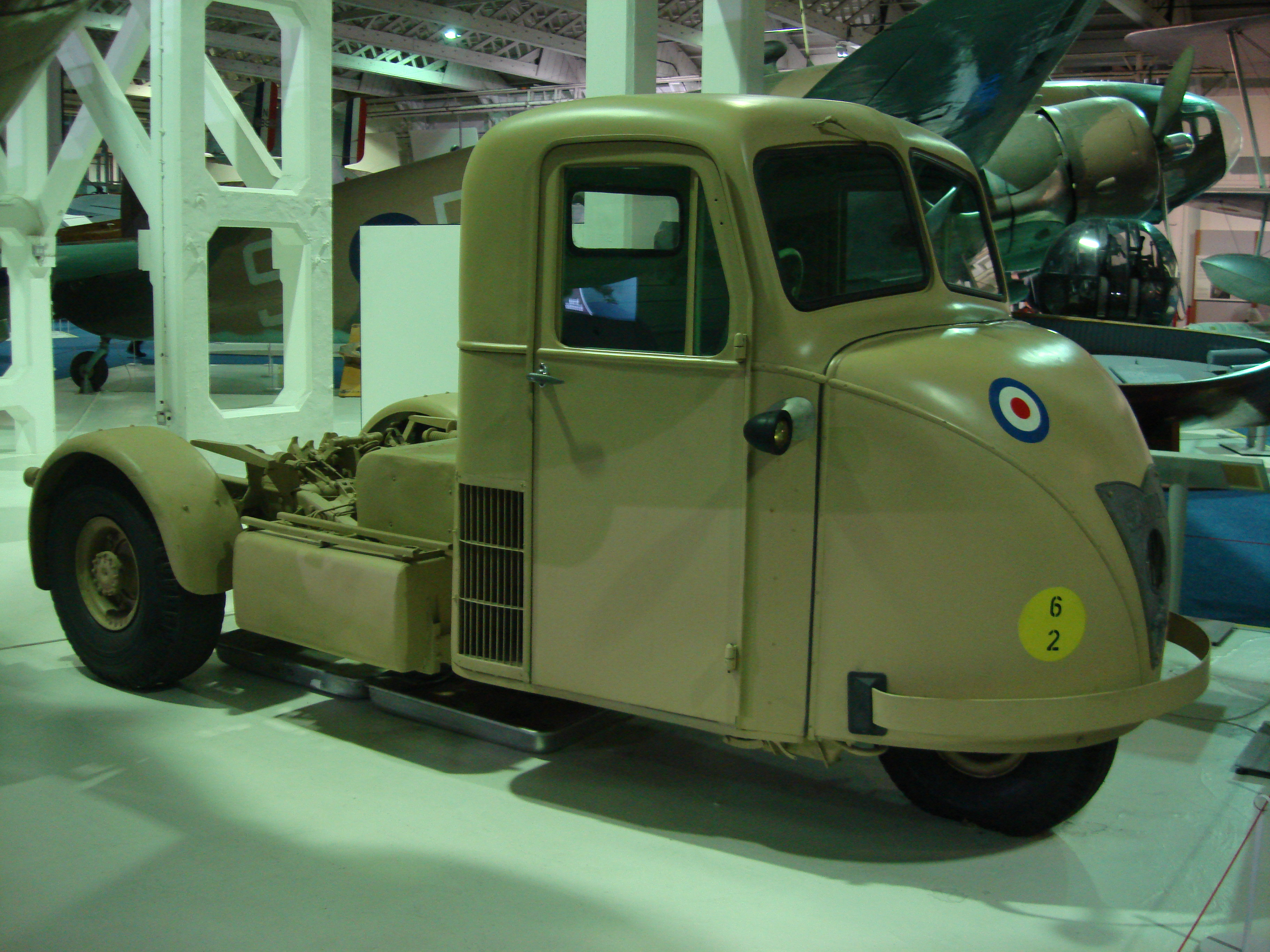 Scammell Scarab 6 ton tractor unit at the RAF Museum, London